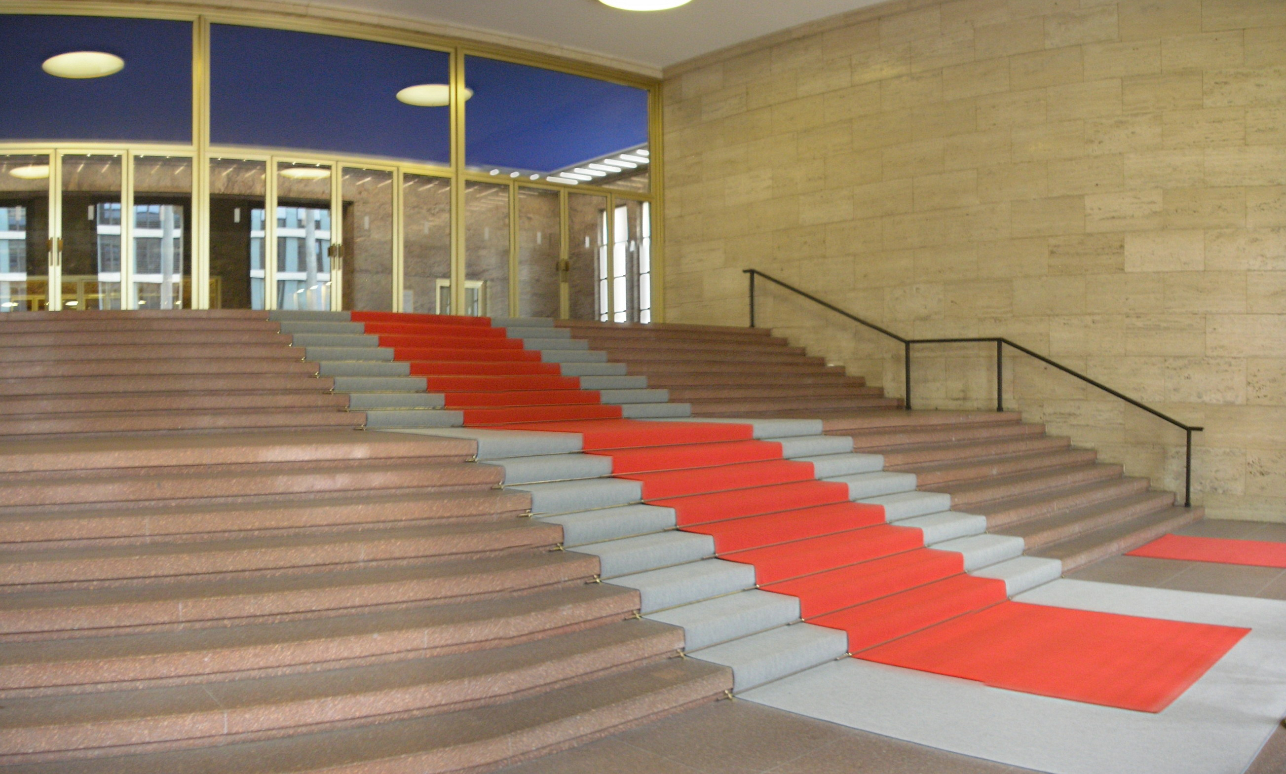 Staircase of the former Reichsbank building, now part of the Foreign Office in Berlin.